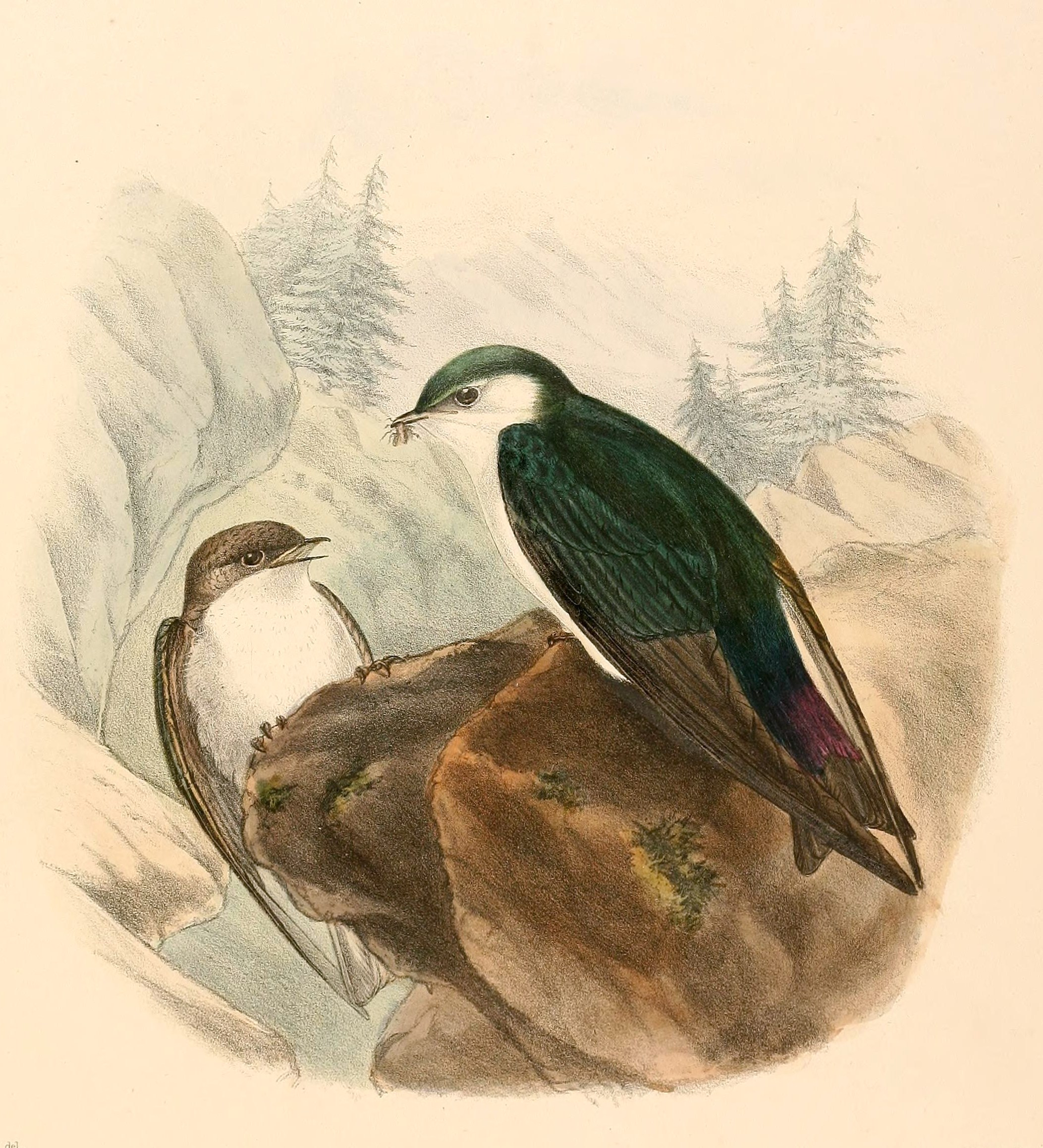 « Tachycineta thalassinus » = Tachycineta thalassina (Violet-green Swallow)